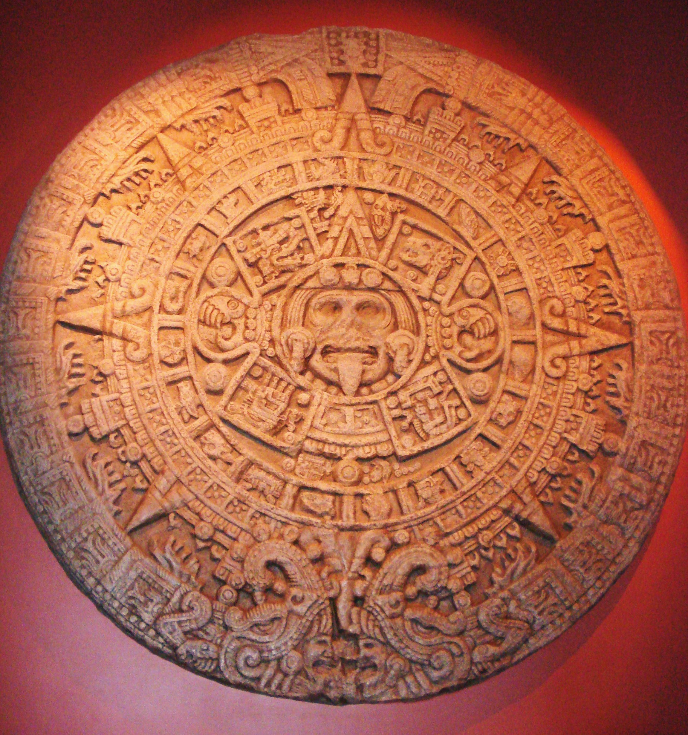 Aztec Sun Stone replica displayed at the Field Museum of Natural History (Stanley Field Museum), Chicago, USA. This is often mistakenly thought as a calendar stone,but it does not track days or months but represents the Aztec concept of the universe and the five worlds.The description at the Field Museum's "The Ancient Americas Exhibition" indicates that this 12 feet diameter replica was made from another replica at the University of Florida. Both the replicas were created from the original Sun Stone unearthed in Mexico City 1790. The original is now on display at the Museo Nacional de Antropología (National Museum of Anthropology),Mexico.